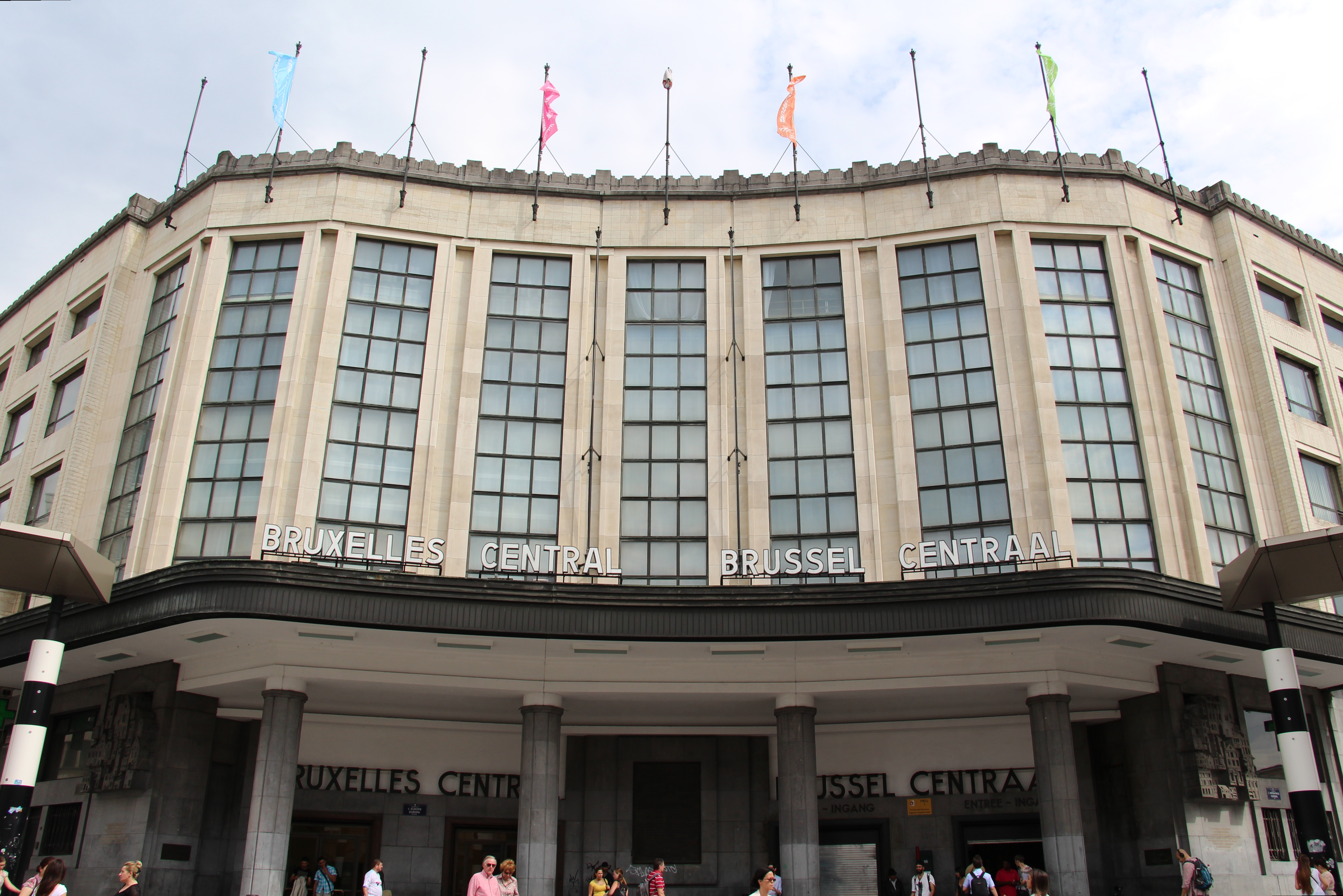 Centre. Carrefour de l'Europe Brussels main railway station. Arch. Victor Horta (until his death in 1947), Maxime Brunfaut (from 1947 to 1957) 1937-57. Main hall.